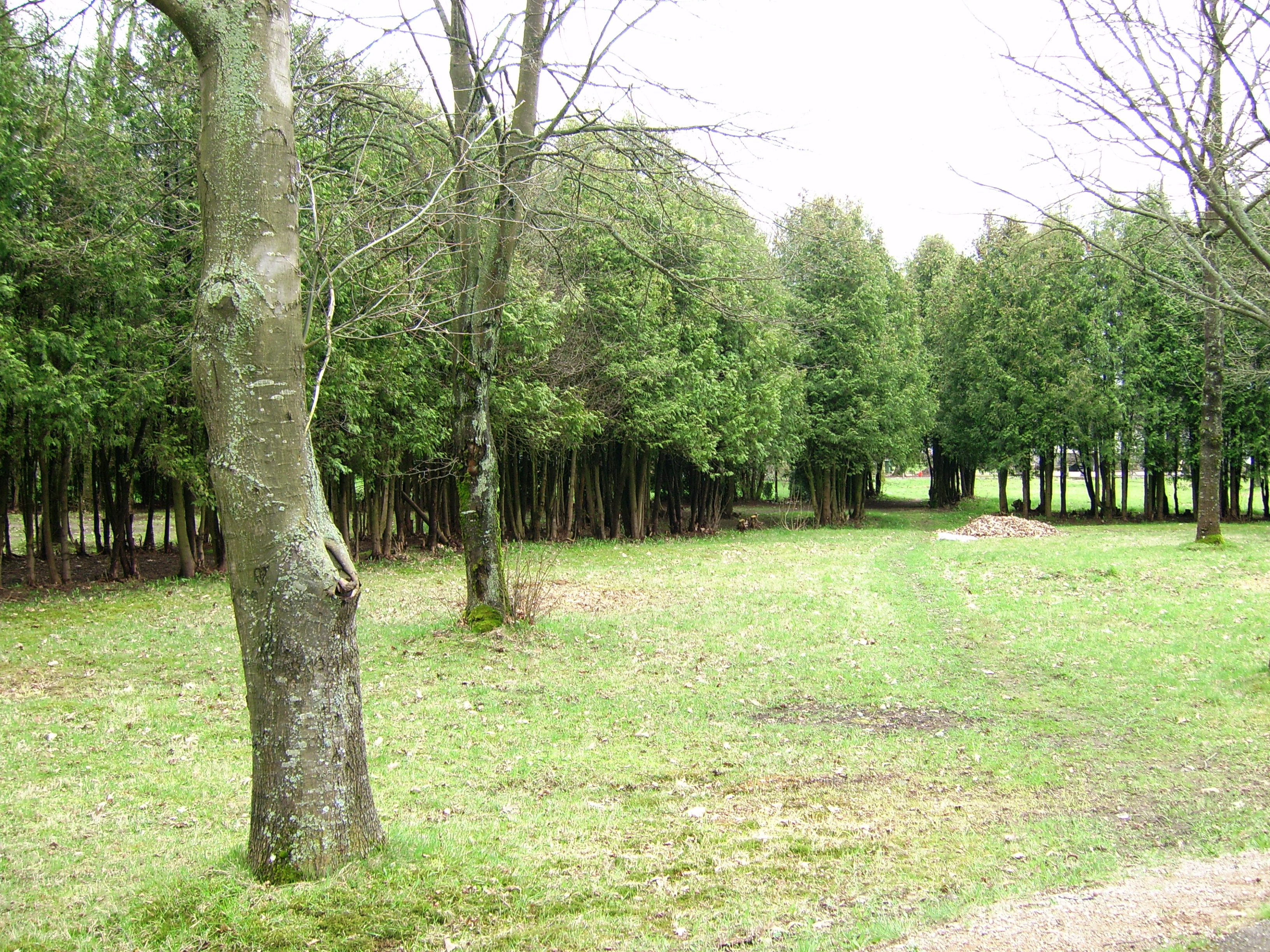 Park in Dapkiškia